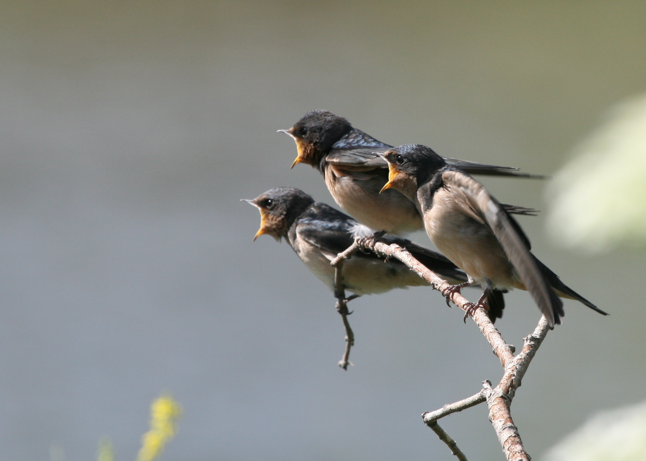 Three hungry Barn Swallow chicks in Humber Bay Park East, Toronto, Ontario, Canada.